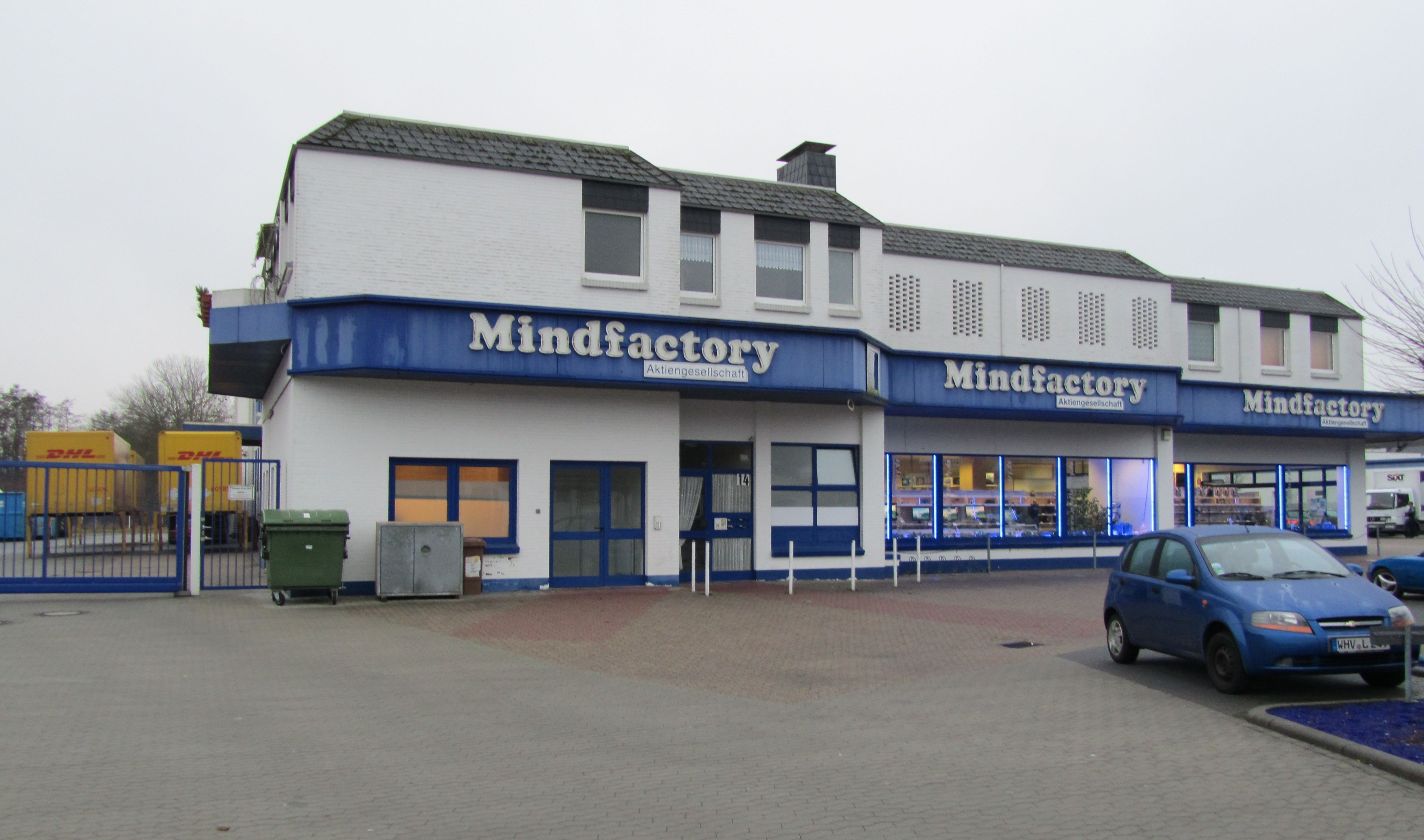 Store of Mindfactory AG, Wilhelmshaven, Germany.